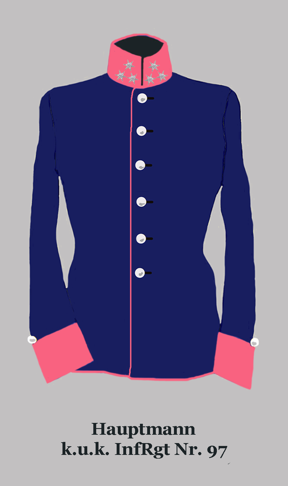 Captain of the k.u.k. german 97nd Infantry Regiment (Collar rosered, buttons white)